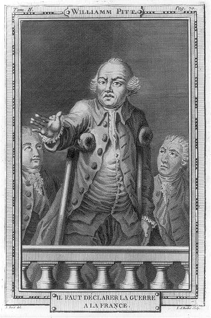 Speech against France by William Pitt in Parliament in 1755, shortly before the start of the Seven Years' War. "We must declare war on France." Bruxelles, 1782.